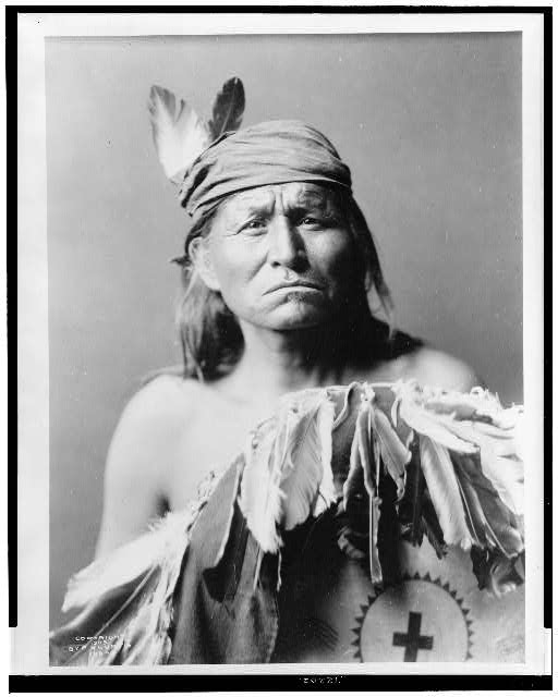 Library of Congress Prints and Photographs Collection TITLE: Apache Yenin Guy CALL NUMBER: LOT 12310-A [item] [P&P] REPRODUCTION NUMBER: LC-USZ62-112202 (b&w film copy neg.) SUMMARY: Half-length portrait of Apache man. MEDIUM: 1 photographic print. CREATED/PUBLISHED: c1903. CREATOR: Curtis, Edward S., 1868-1952, photographer. NOTES: H34044 U.S. Copyright Office. Edward S. Curtis Collection. Curtis no. 884. SUBJECTS: Indians of North America--Clothing & dress--1900-1910. Apache Indians--Clothing & dress--1900-1910. FORMAT: Portrait photographs 1900-1910. Photographic prints 1900-1910. DIGITAL ID: (b&w film copy neg.) cph 3c12202 CARD #: 94514034